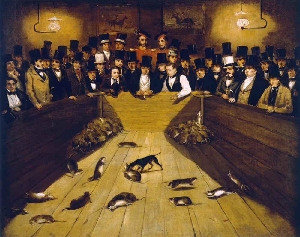 British School; Rat-Catching at the 'Blue Anchor' Tavern, Bunhill Row, Finsbury, London; Museum of London